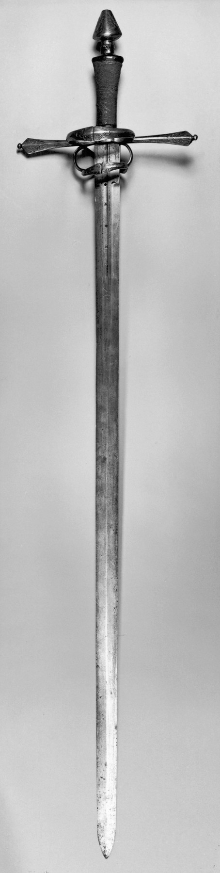 This sword was surely made for a nobleman in the honor guard of Habsburg Archduke Ferdinand at Ambras Palace (Innsbruck, Austria): an identical one has been traced to that source. The marks of the maker Diefstetter and of Bavaria, where the blade was inspected, are on the blade. The rough surface and durability of shark skin provided a good grip.